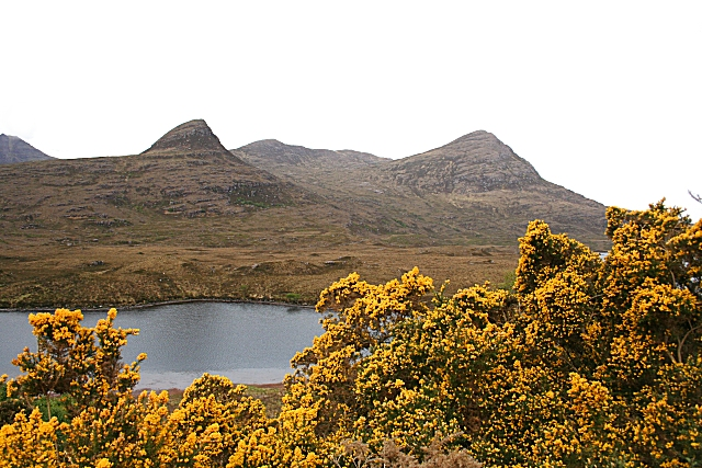 Beinn an Eoin Cioch Beinn an Eoin is the sharp peak on the left, and the pyramid-shped one on the right is Sgòrr Tuath. The loch is the head of Loch Lurgainn (spelled Lugainn on the 1:25,000 map, but I don't know which is 'correct').